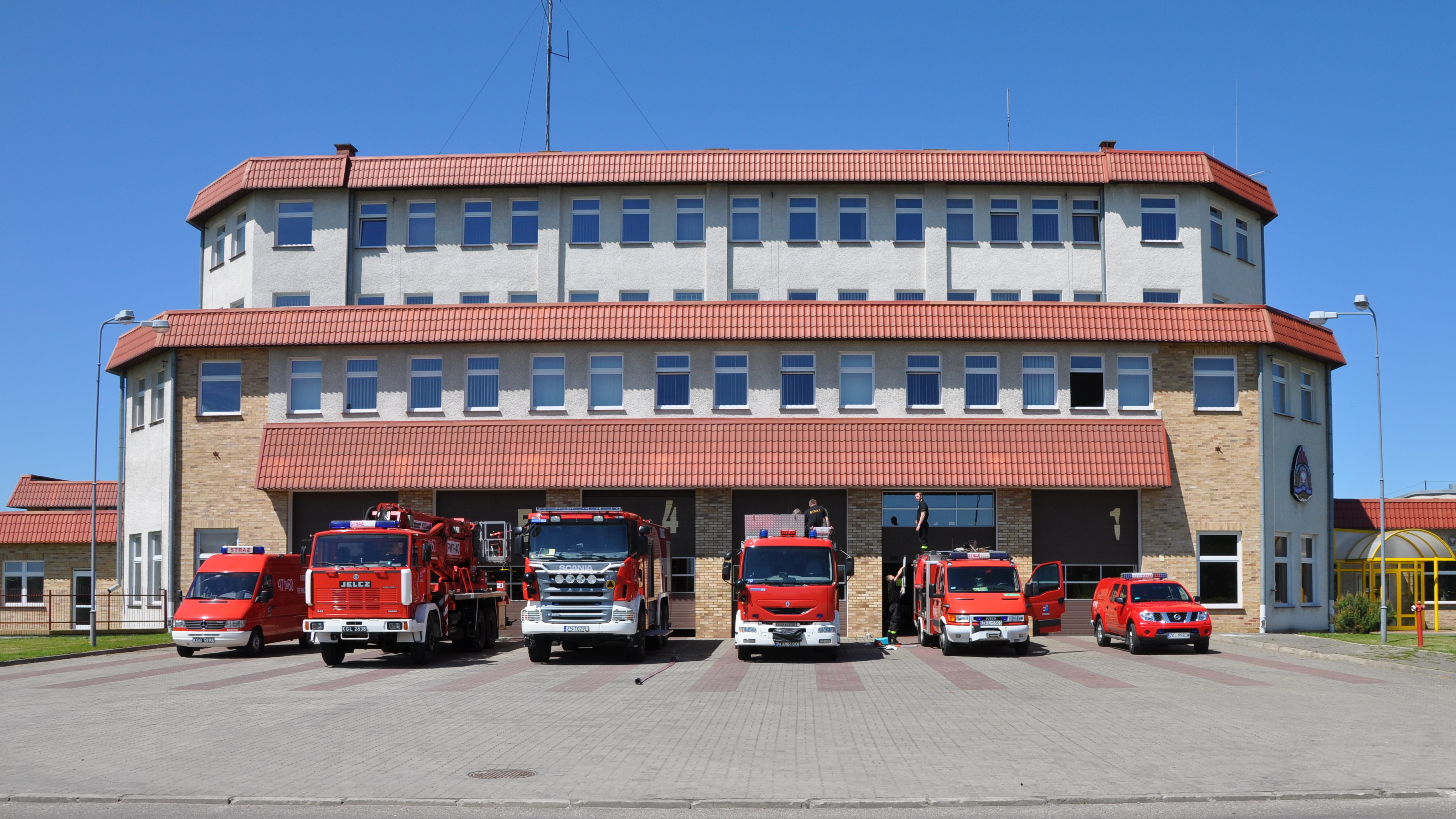 Fire station in Kołobrzeg, Poland